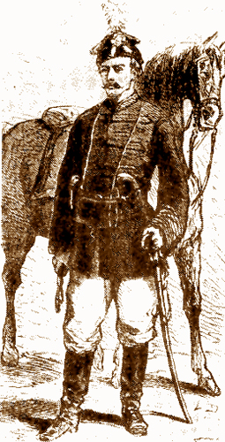 January Uprising Powstanie Styczniowe - lancier Polish Soldier , participiant of insurrection